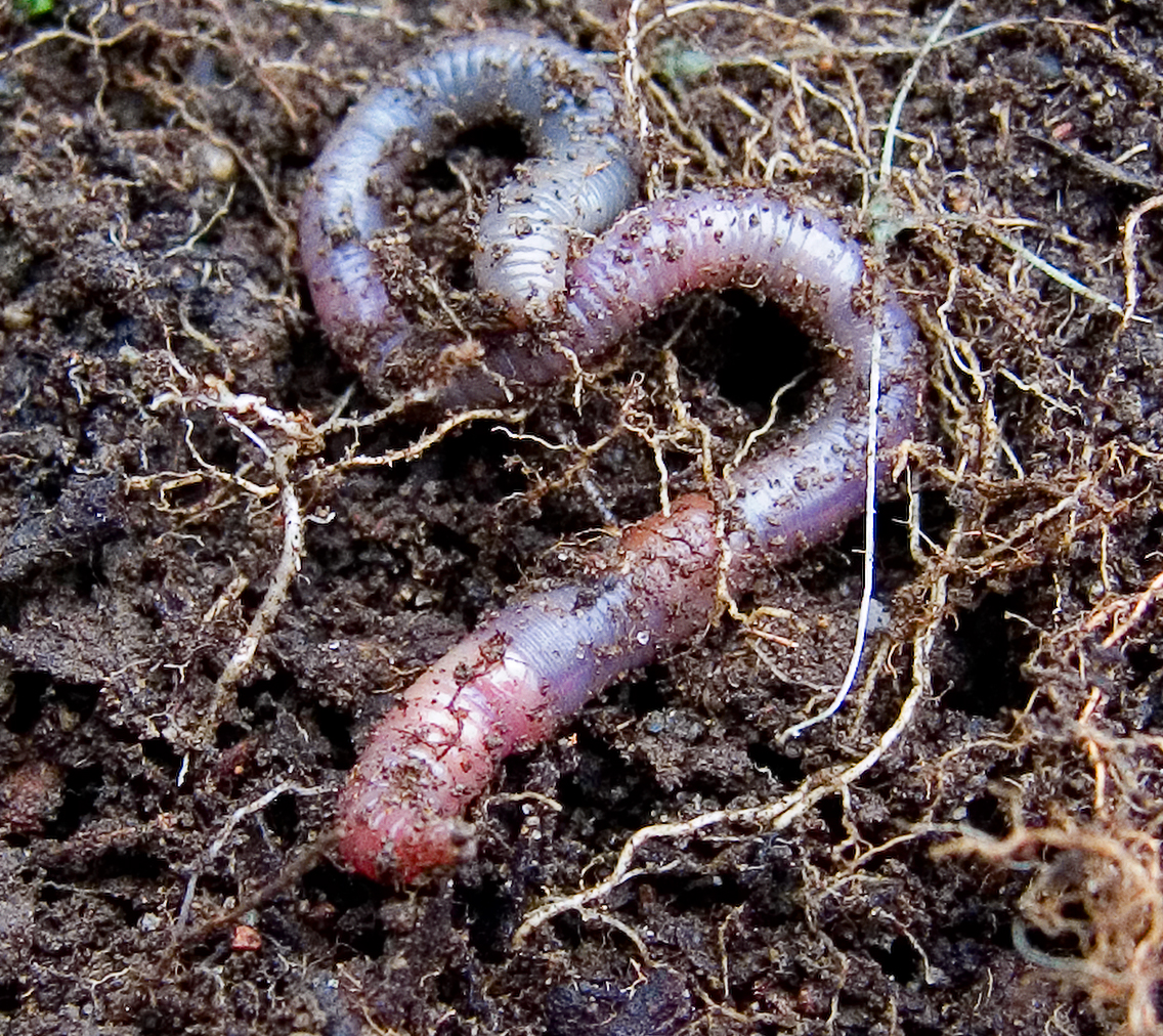 Earthworm (Lumbricus terrestris) on earth.